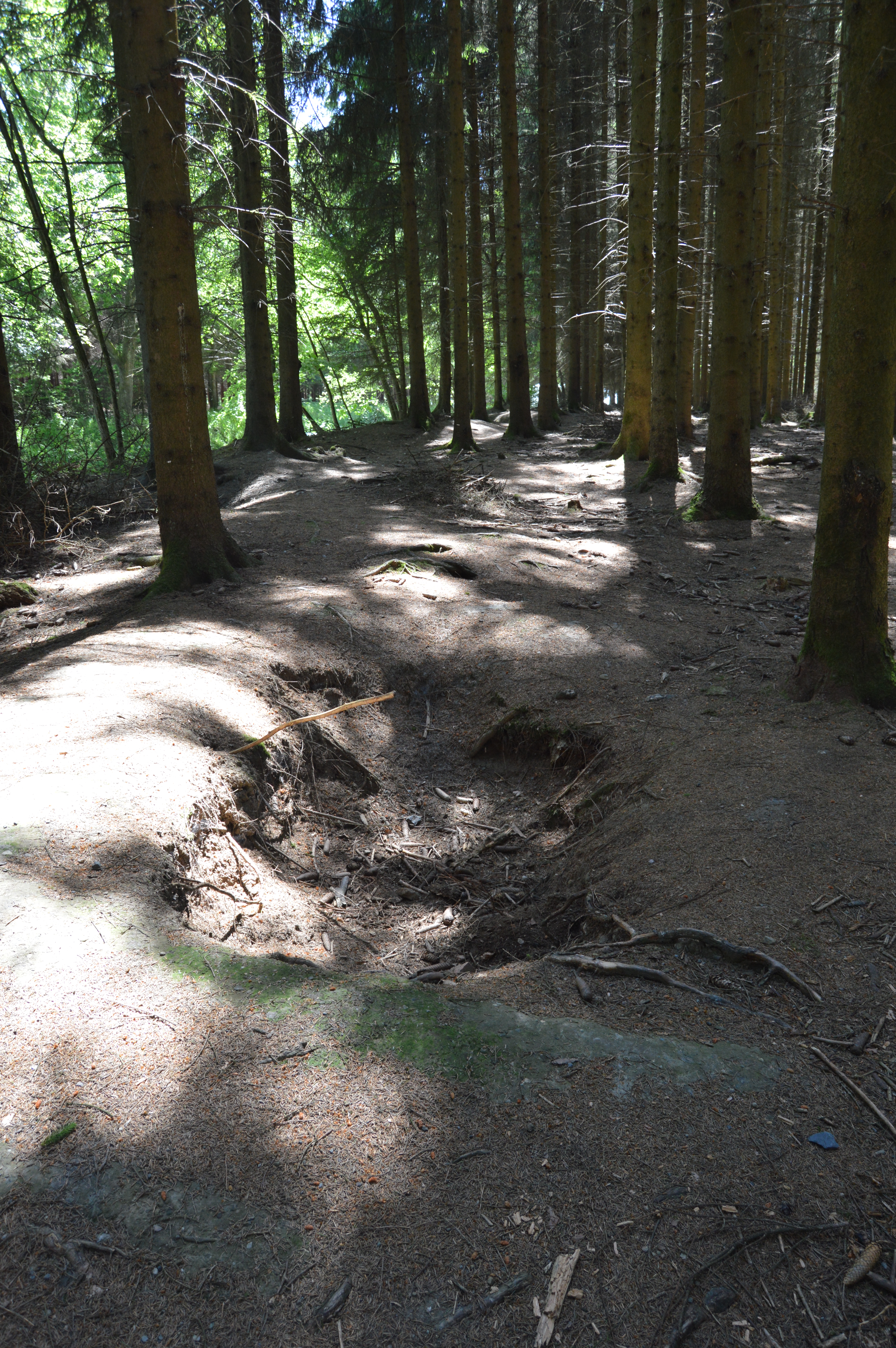 Foxholes in the Jacques Wood at Foy, Bastogne, Belgium. These holes were used by the Easy Company (101st Airbones Division) in December 1944 and January 1945 to defend Bastogne during the Battle of the Bulge. The place is evocated during episode 7 The Breaking Point of the TV minisery Band of Brothers